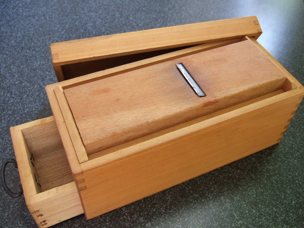 Japanese kitchen utensil to shave dried bonito (Katsuobushi)